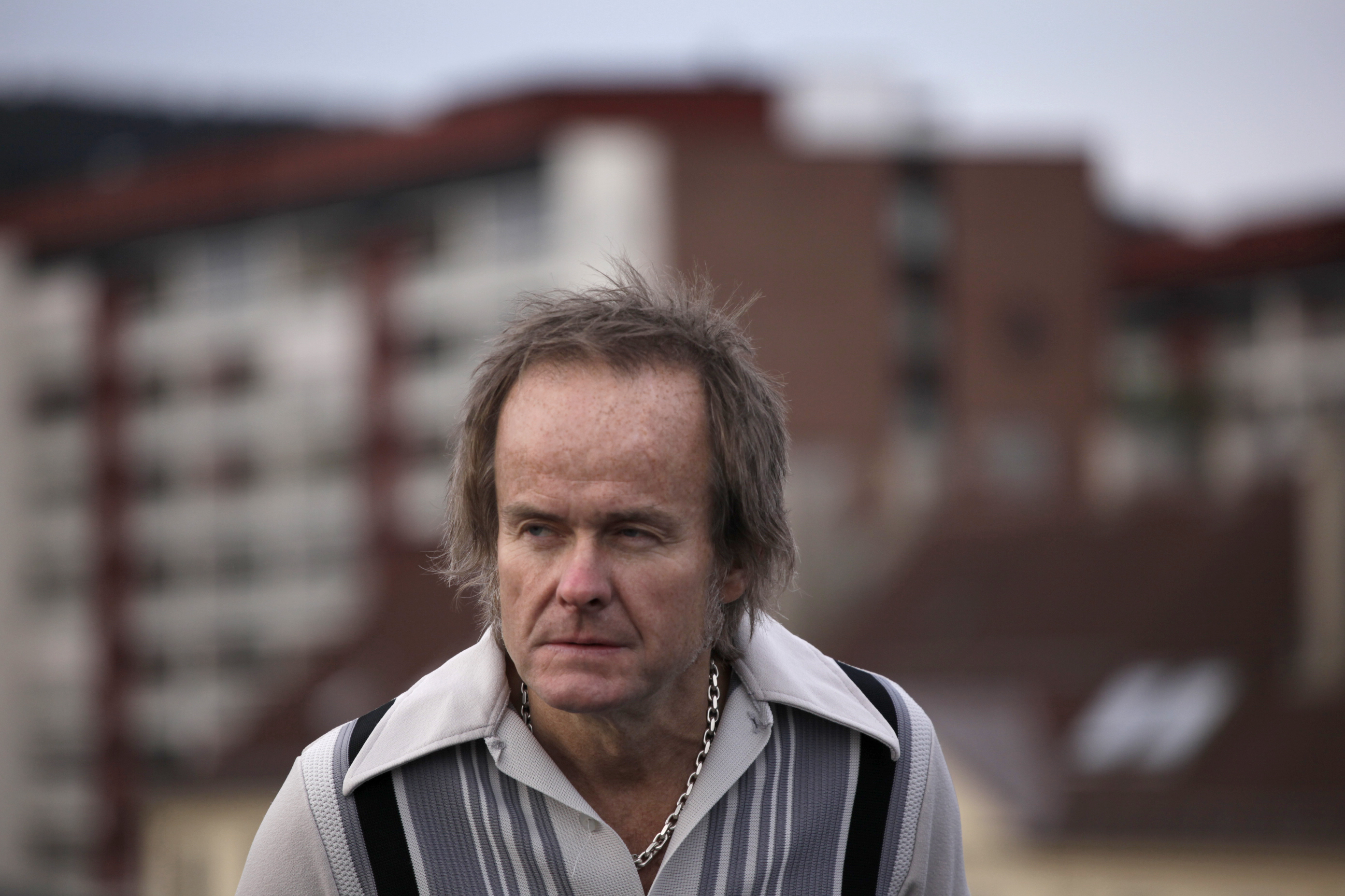 Portrait of Norwegian author and musician Sverre Knudsen. In the background is Sandaker Senter in Oslo.